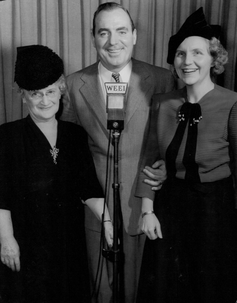 Photo of actor Pat O'Brien, Celia Wellman (left) and Lorraine Holmes. O'Brien was appearing on the WEEI Radio program "Hollywood Snapshots". WEEI is located in Boston.